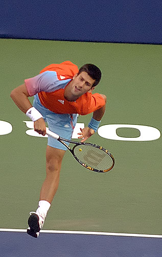 Novak Djokovic playing at the 2008 Rogers Cup